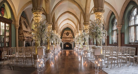 A room setup for a wedding in Wotton House, Surrey